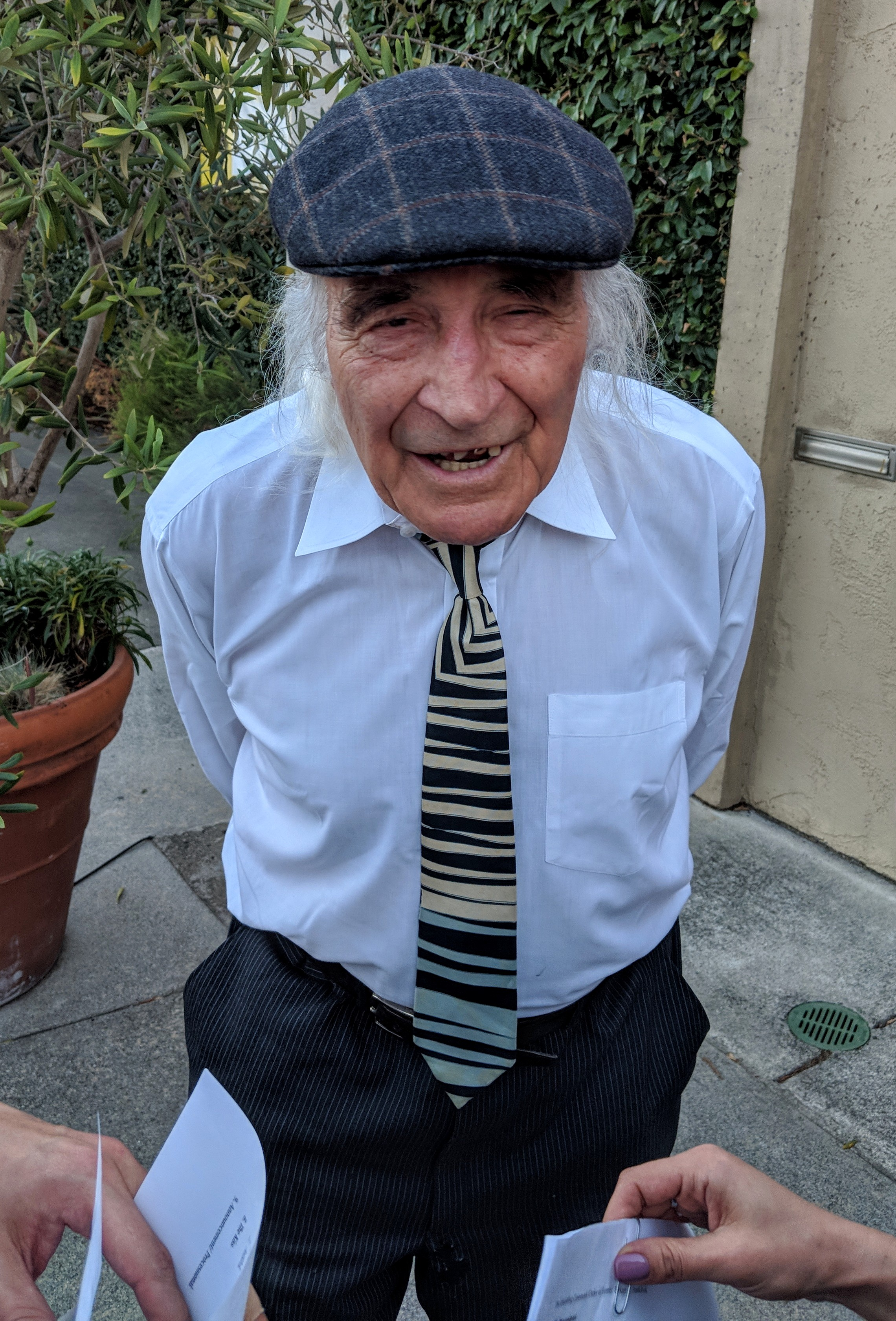 Attorney Tony Serra in Sausalito, California on October 12, 2018. Photo by Jim Heaphy.